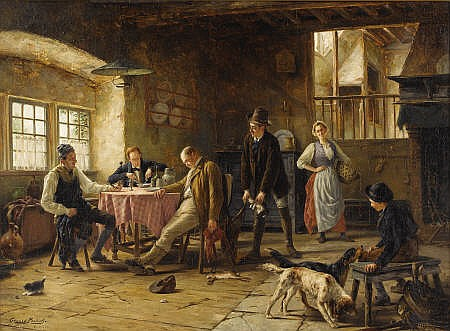 Gerard Jozef Portielje (1856-1929)